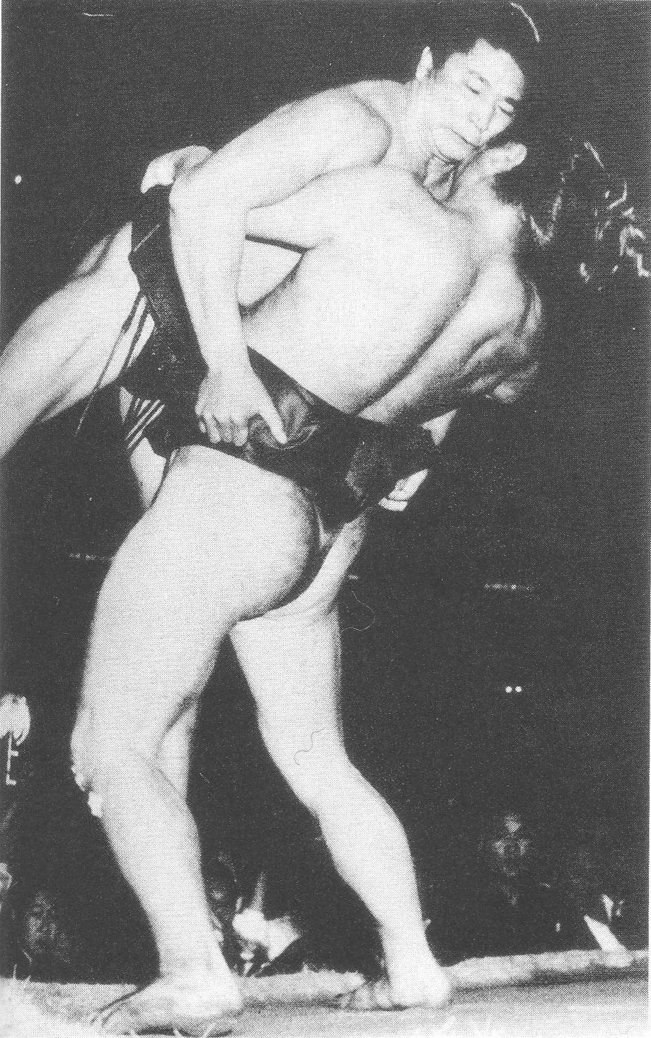 Tochinishiki (victory) VS Wakanohana (Defeat), Natsu (Summer) Basho in 1954.